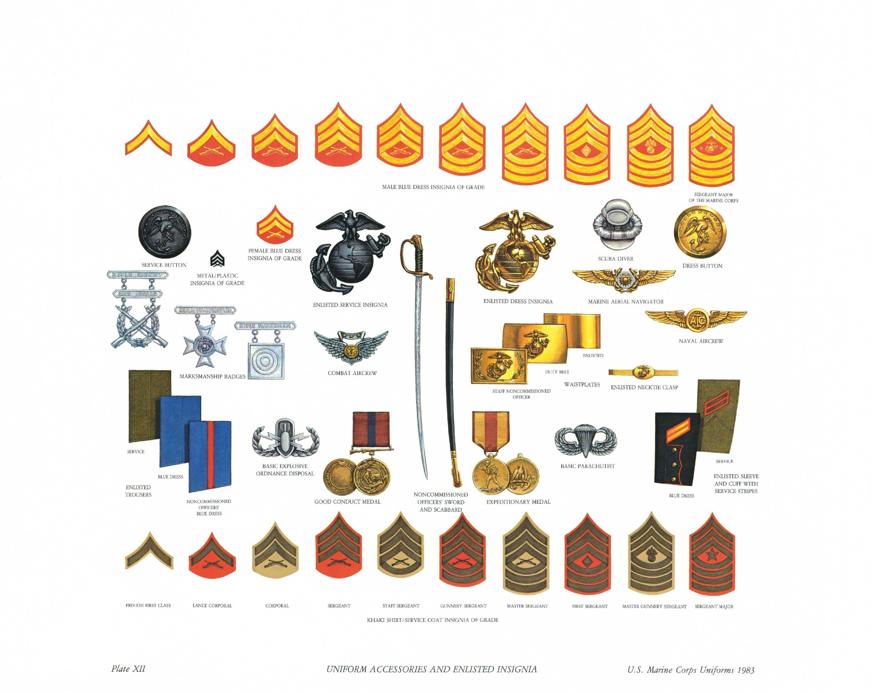 High resolution United States Marine Corps enlisted rank insignia and accessories.